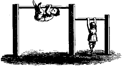 Chin-up bars sketch.